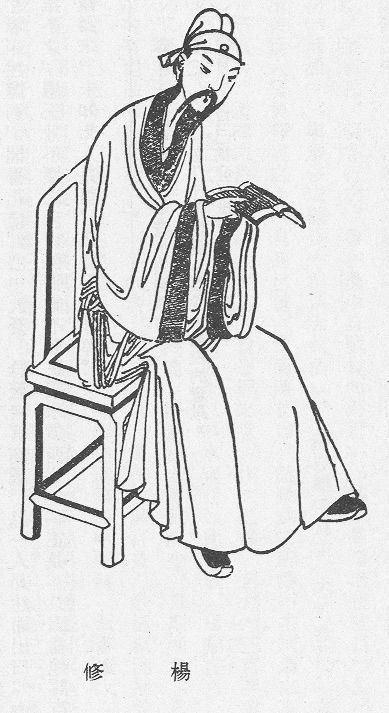 Portrait of the officer Yang Xiu from a Qing Dynasty edition of The Romance of the Three Kingdoms.